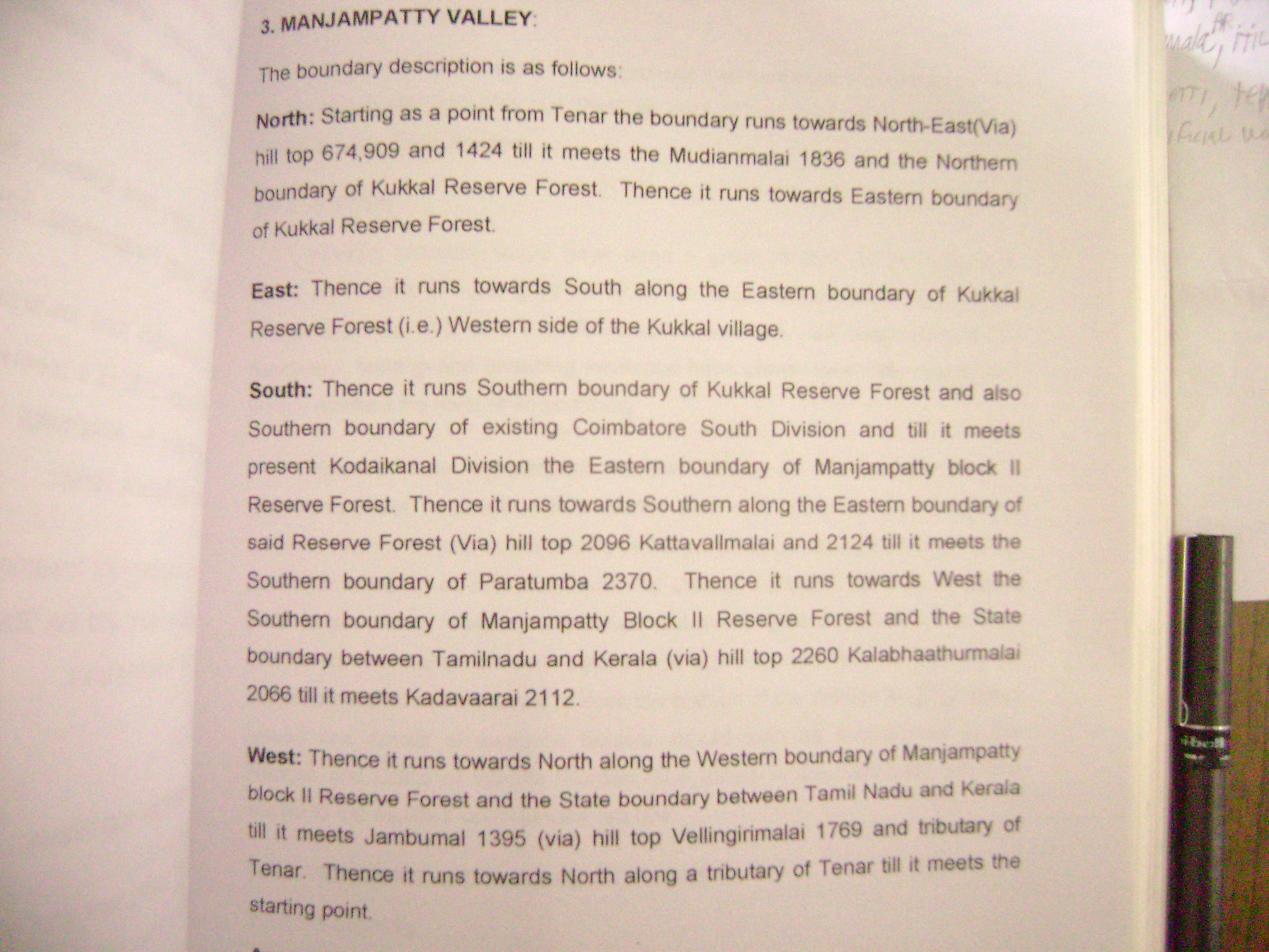 Manjampatti Valley boundaries from Ganesan I.F.S., V. (20-12-2006), Management Plan for Indira Gandhi Wildlife Sanctuary & National Park, Pollachi, for the period 2007-2008 to 2011-2012, Tamil Nadu Forest Department, Dharmapuri, Tamil Nadu